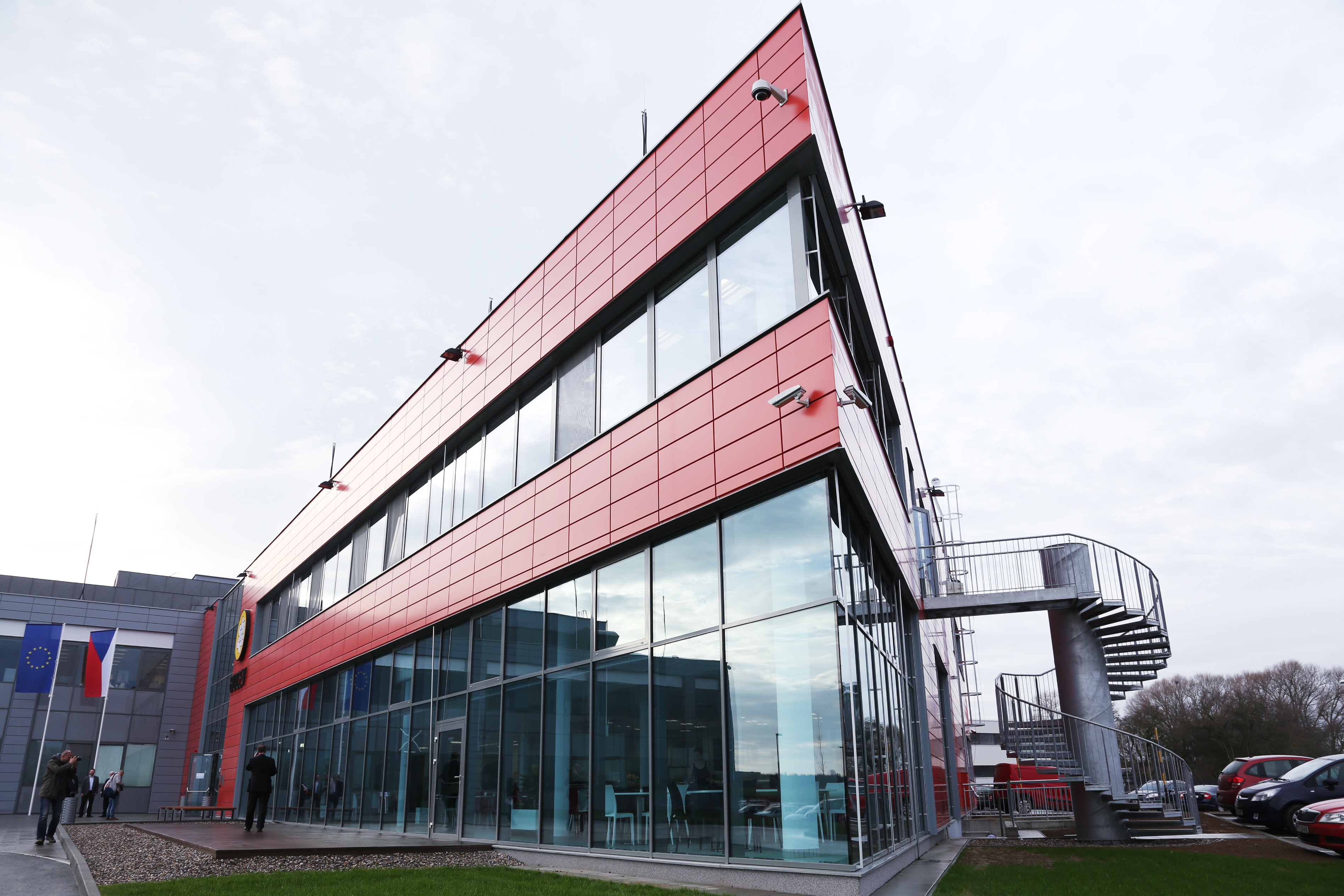 BIOCEV z.s.p.o. (abbreviation for Biotechnology a Biomedicine Center in Vestec) is an association of legal entities which consists of several institutes of the Academy of Sciences of the Czech Republic, the Faculty of Science and the First Faculty of Medicine of the Charles University in Prague. The institute was opened in 2015.